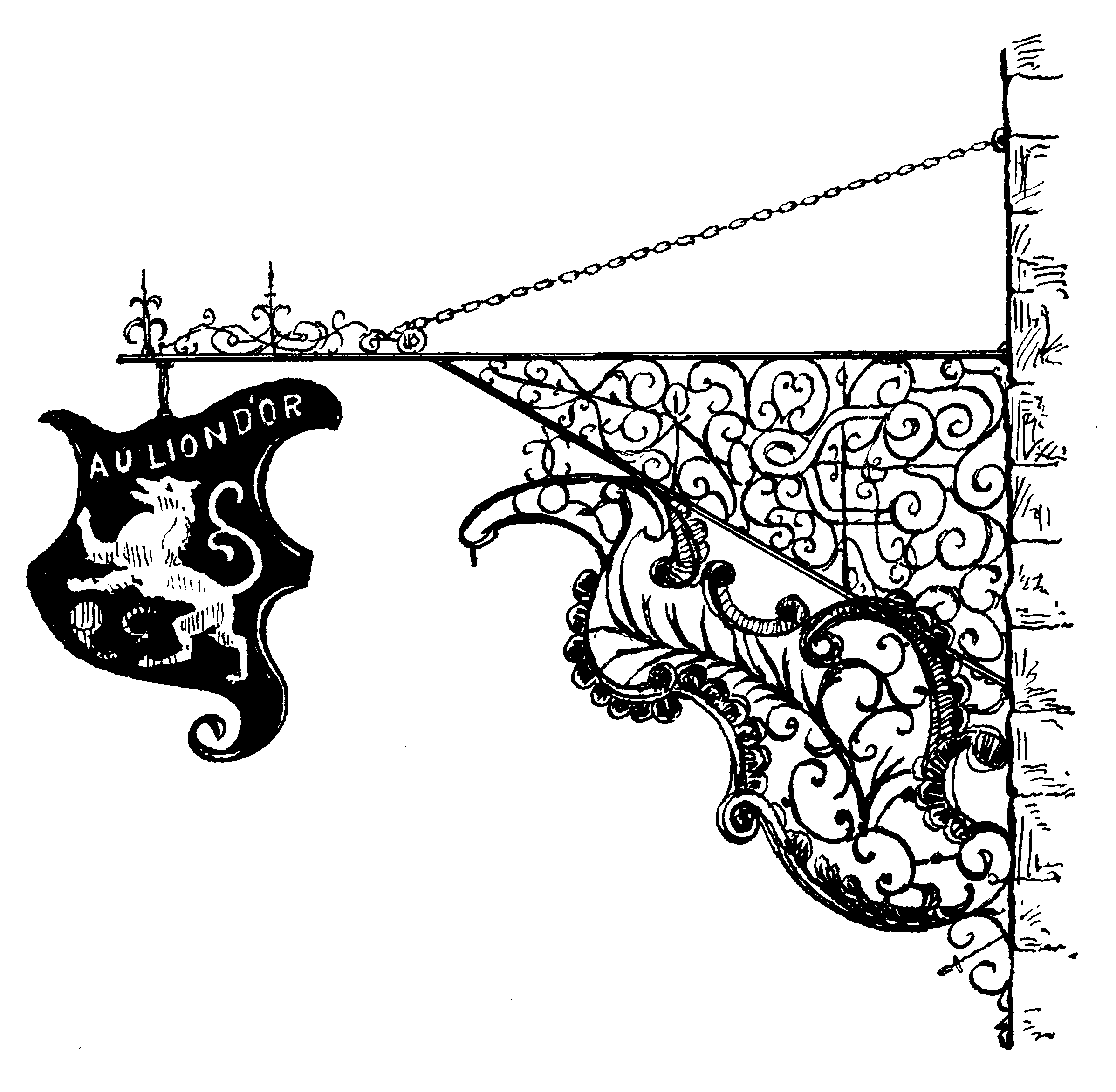 Line art drawing of a sign